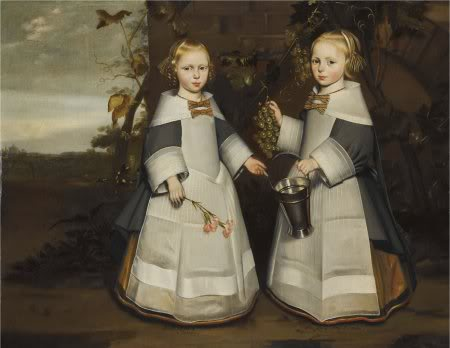 Twin girls aged 4 in 1654 (one day apart) picking grapes from a vine on a wall with a landscape behind. One is holding sprig of flowers and one is holding a tin bucket. Both are wearing white starched aprons. Inscribed "Ætatis Suæ 4 1654 - 7 Octobris. ætatis Suæ 4. 1654 8 Octobris."